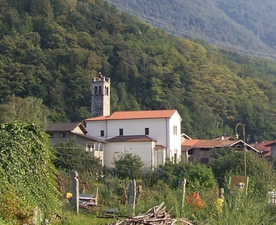 Church in Nadro, Val Camonica, Italia